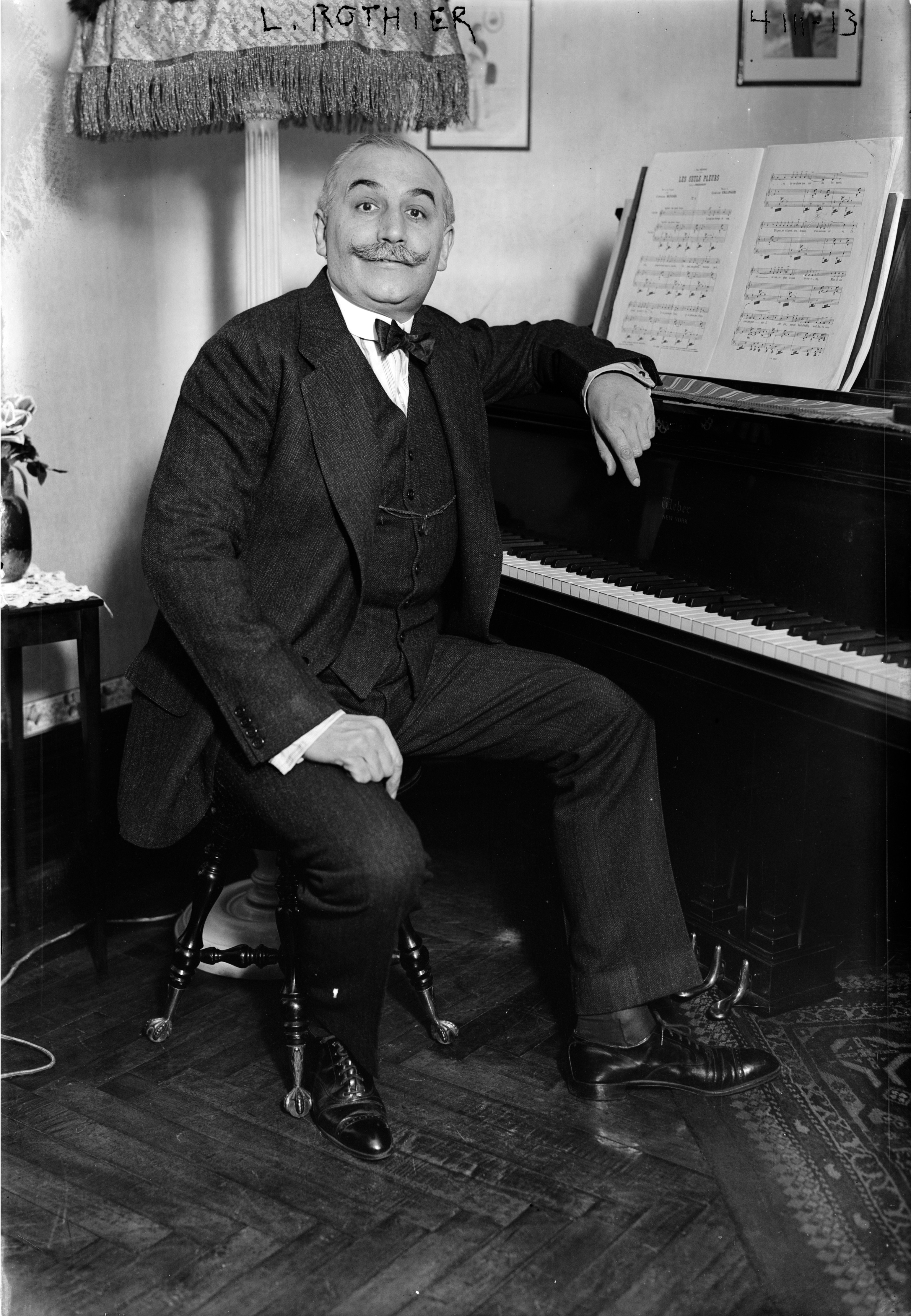 French opera singer Léon Rothier (1874-1951)